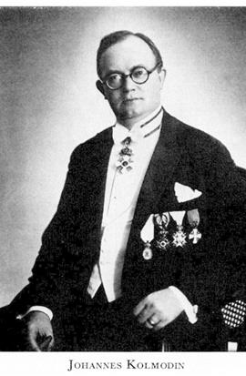 Johannes Kolmodin